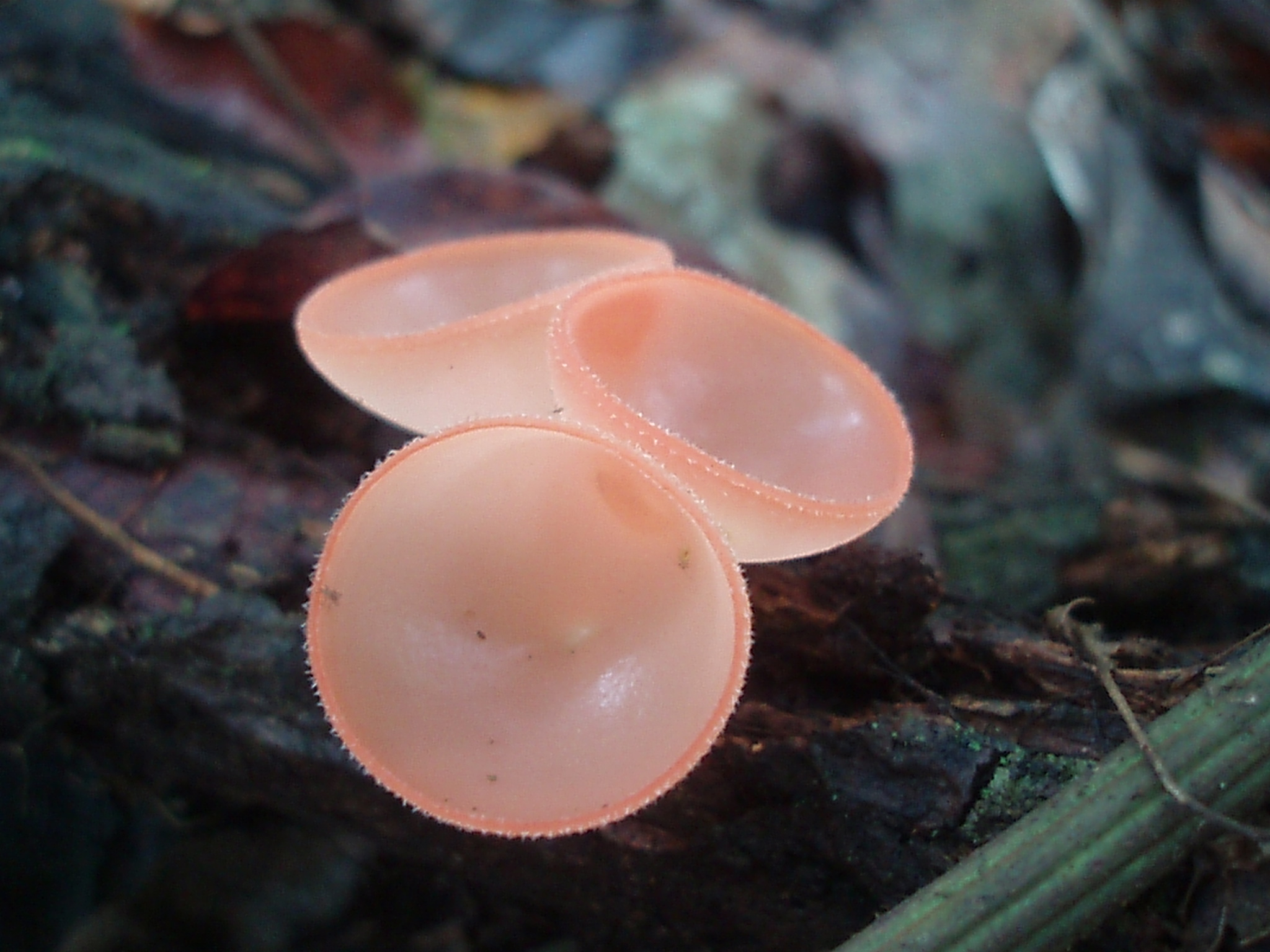 An unidentified species of the genus Cookeina, photographed in Cristalino Jungle Lodge, Alta Floresta, Brazil.